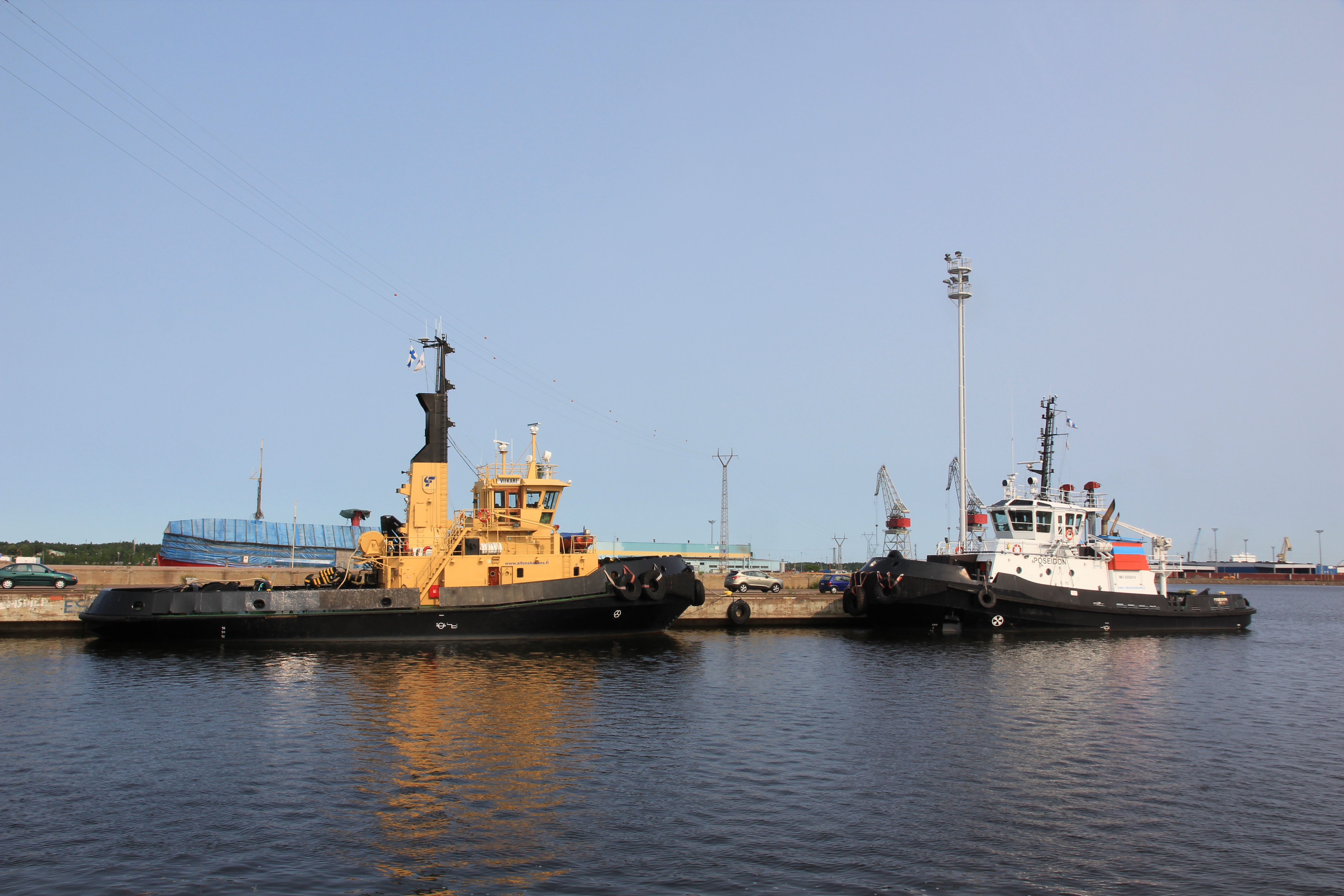 Tugboats Viikari and Poseidon in Kotka.